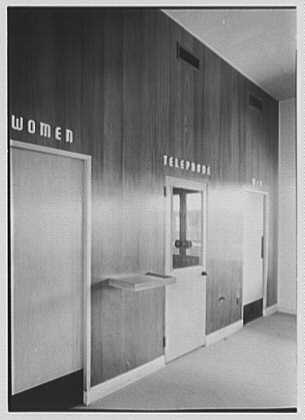 Title: Aberdeen Station, Pennsylvania Railroad, Aberdeen, Maryland. Abstract/medium: Gottscho-Schleisner Collection (Library of Congress) Physical description: 1 negative